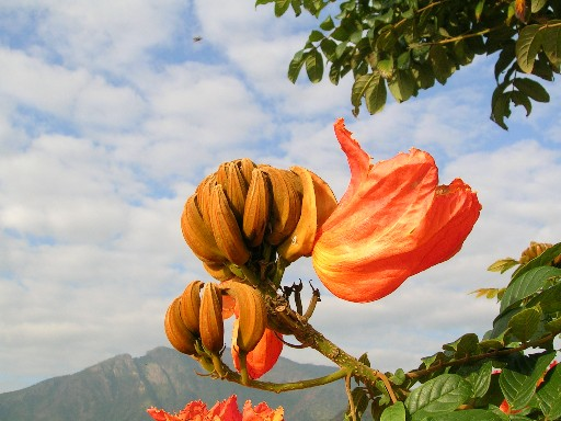 Spathodea campanulata Foothills of Palni hills. Photograph by L. Shyamal